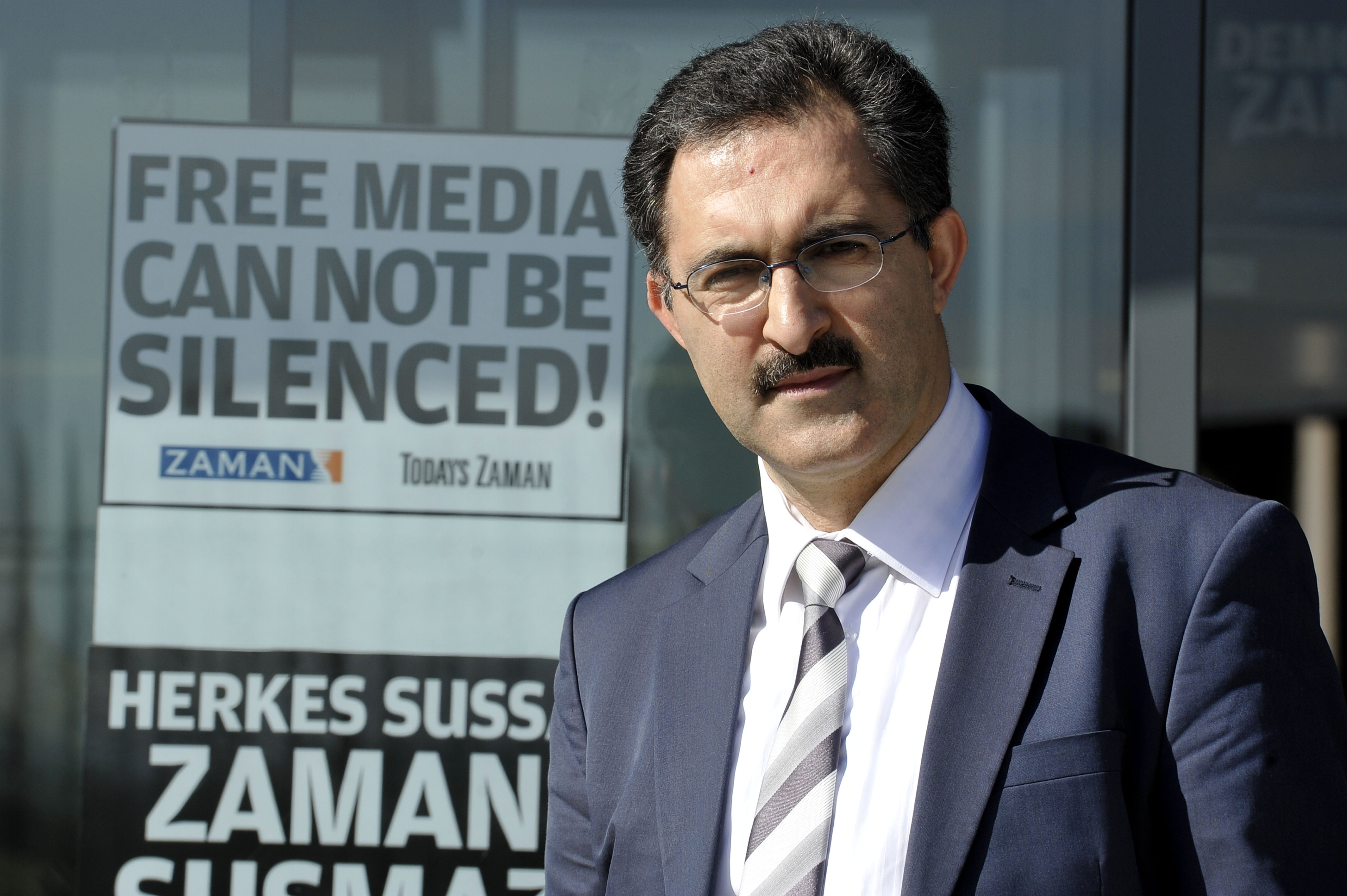 Turkish journalist Abdullah Bozkurt who is based in Stockholm, Sweden.